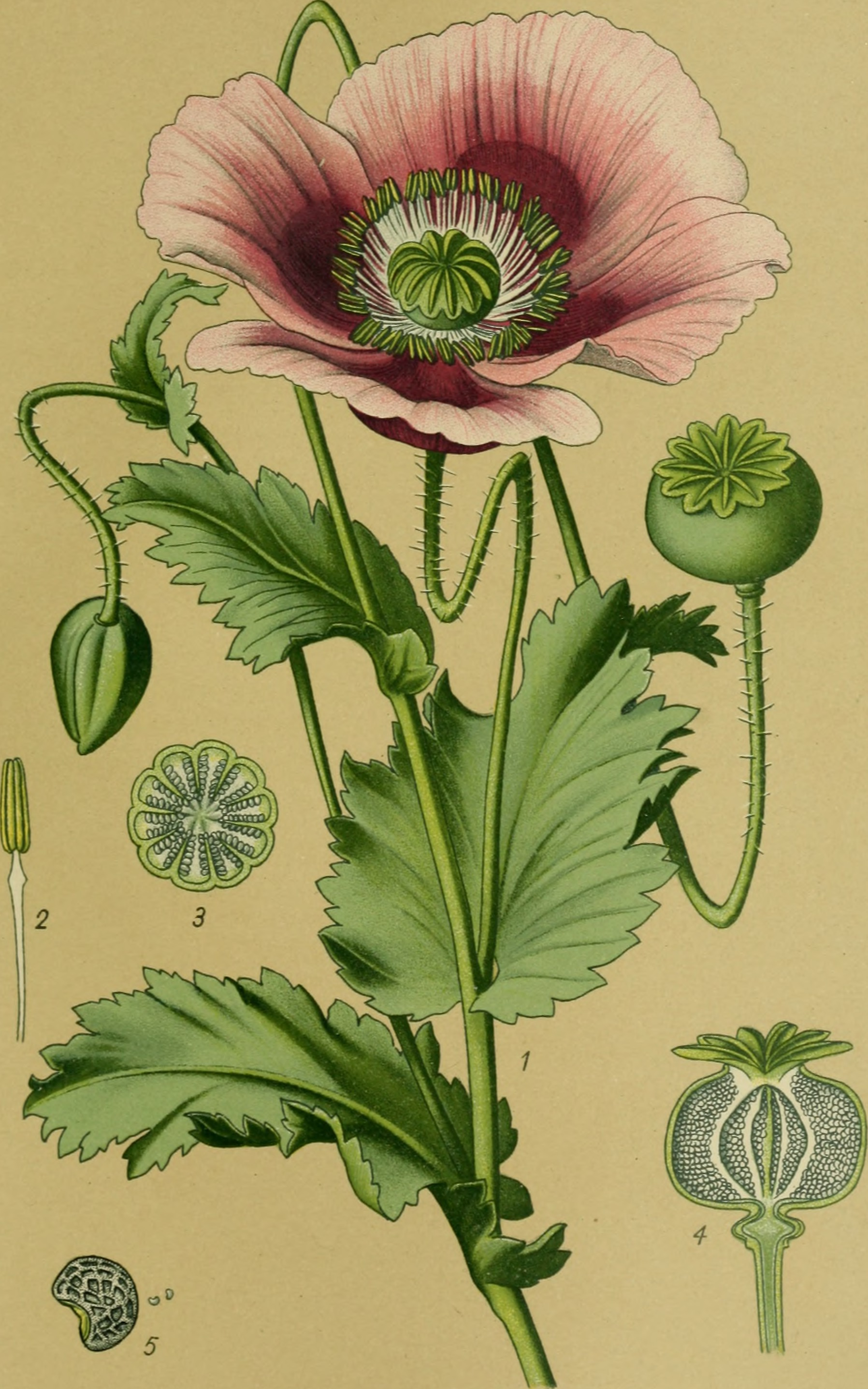 Title: Die Giftpflanzen Deutschlands Year: 1910 (1910s) Authors: Esser, Peter, 1859- Subjects: Poisonous plants Publisher: Braunschweig, F. Vieweg Text Appearing Before Image: Tafel 47. Tafel 47. Text Appearing After Image: Schlafmohn. Papauer somniferum L 1 Blühender Sproß. 2 Staubblatt. 3 Fruchtknoten im Querschnitt. 4 Fruchtknoten im Längsschnitt. 5 Same. 2 bis 5 vergr.